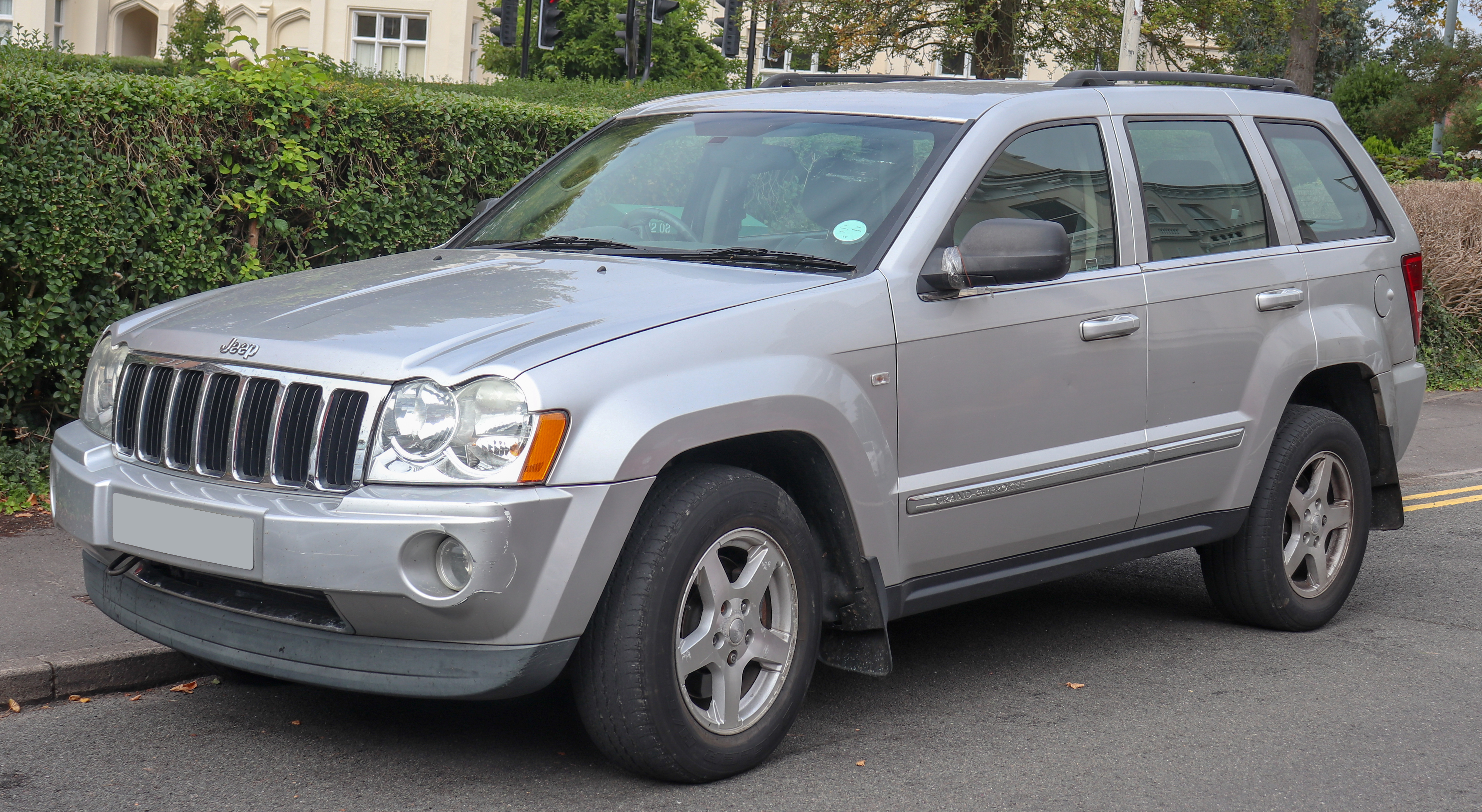 2006 Jeep Grand Cherokee CRD Limited Automatic 3.0 Front Taken in Leamington Spa